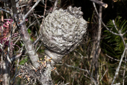 Hakea bakeriana capsule